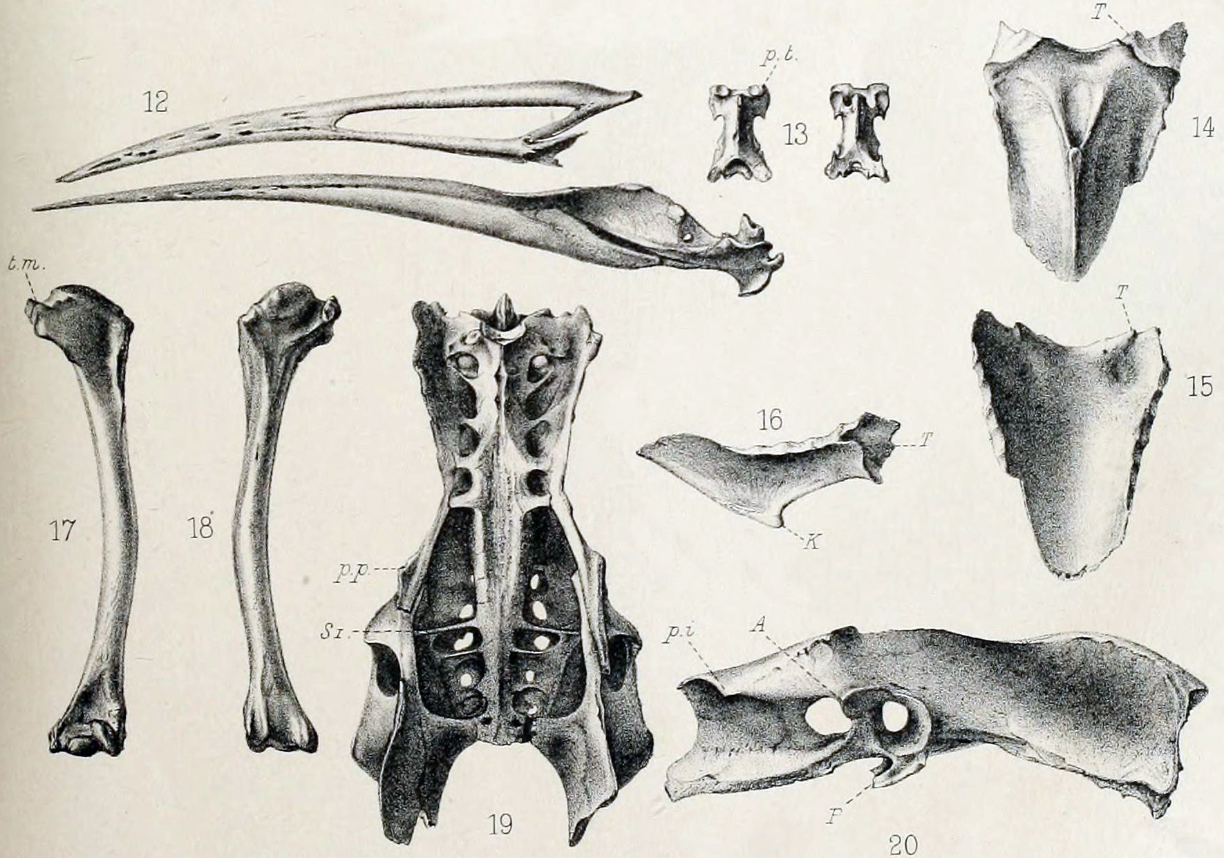 Subfossil remains of the Red Rail.